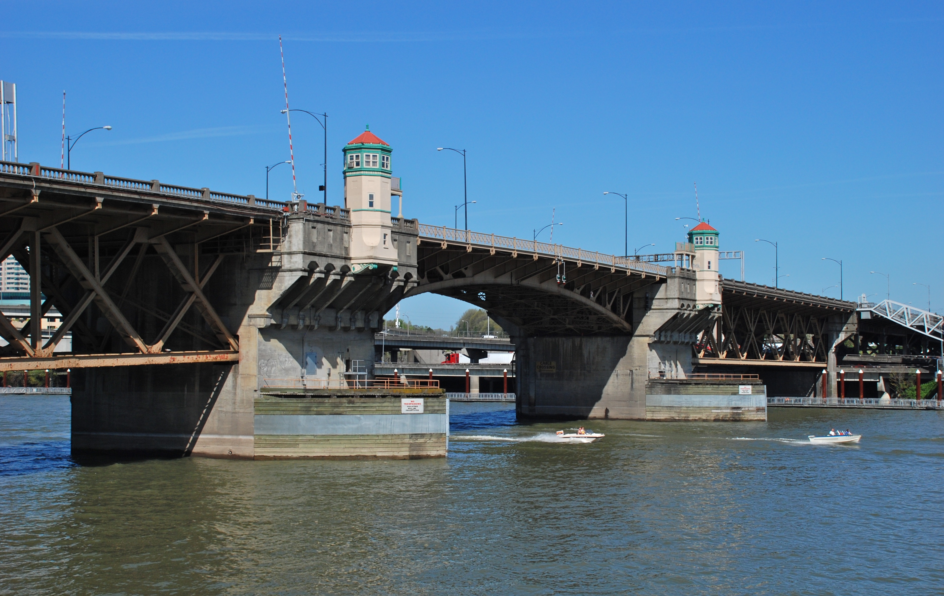 The Burnside Bridge, in Portland, Oregon, with two motorboats below, headed upstream. This view is from Waterfront Park and shows the bridge's south side.